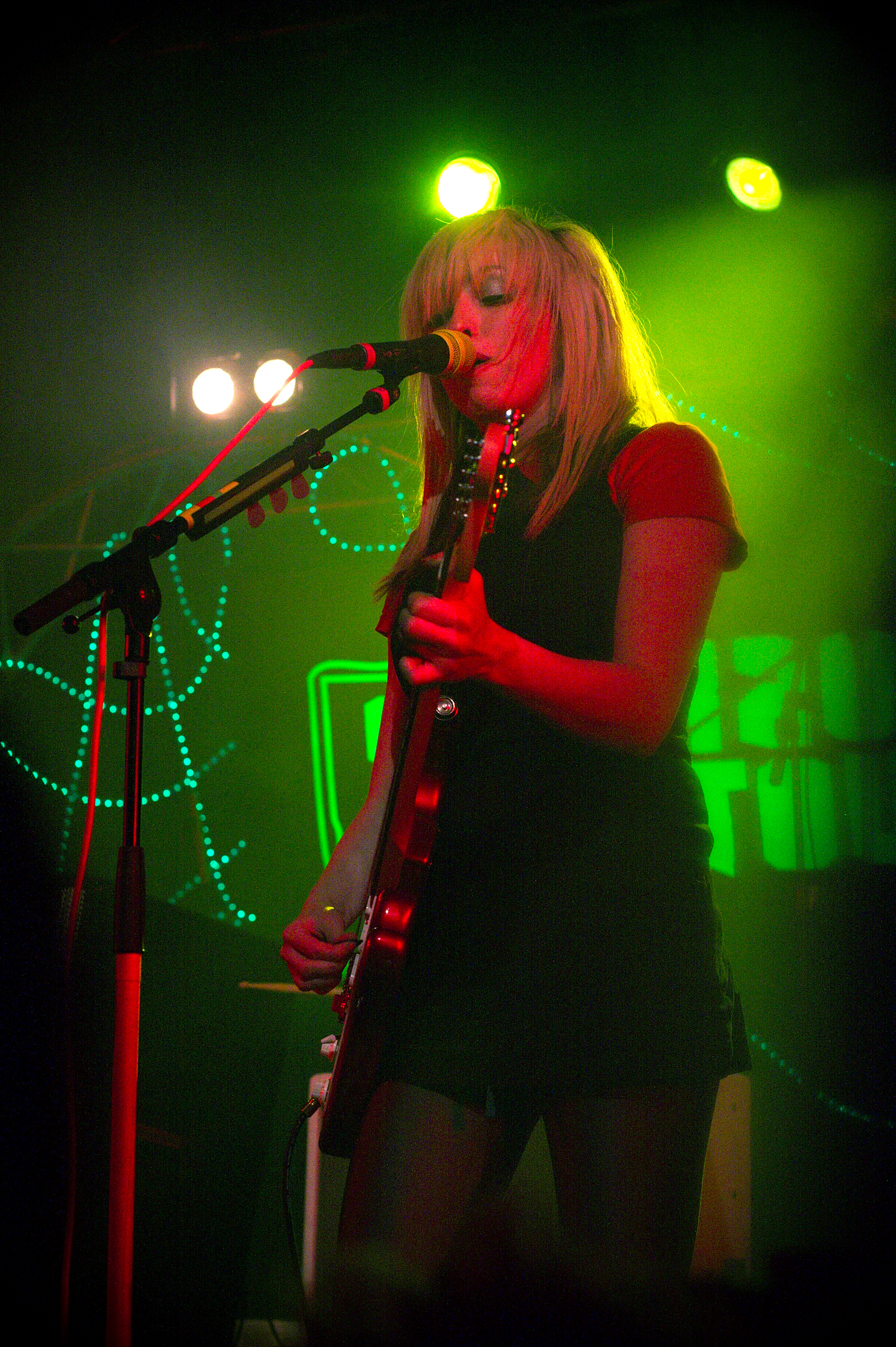 The Ting Tings